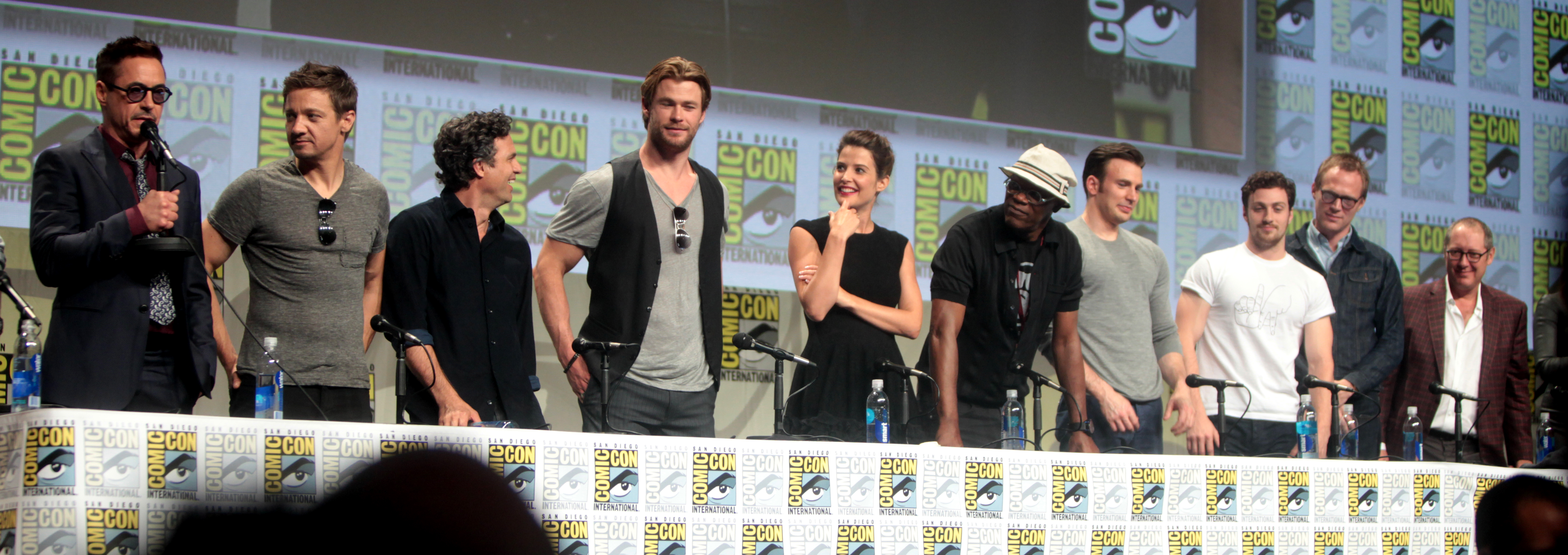 Robert Downey, Jr., Jeremy Renner, Mark Ruffalo, Chris Hemsworth, Cobie Smulders, Samuel L. Jackson, Chris Evans, Aaron Taylor-Johnson, Paul Bettany and James Spader speaking at the 2014 San Diego Comic Con International, for "Avengers: Age of Ultron", at the San Diego Convention Center in San Diego, California.